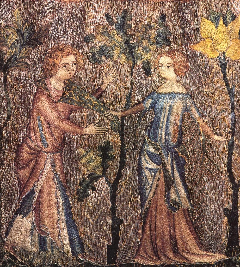 Made in Paris, circa 1340. Lovers playing a game with a hood in a garden. Six and 1/4 x 5 1/2 inches; topside-couched gold and silver threads on linen with silk polychrome embroidery in split, chain, stem, and knot stitches. (Color picture and some information from Camille, p. 50; additional b+w photo and further detail from Schuette and Müller-Christensen, pp. 136, 311)